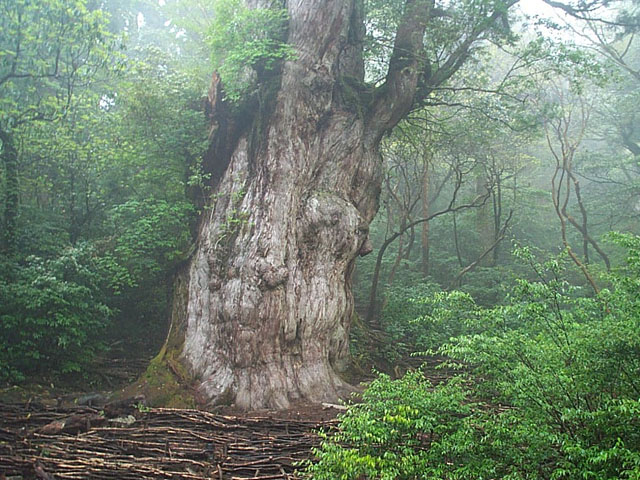 Jhomonsugi in Yaku Island, Japan. Jhomonsugi is the biggest and oldest Yakusugi which is Cryptomeria japonica.